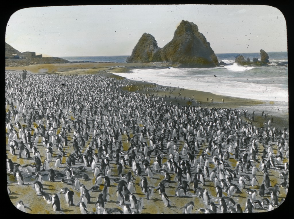 Royal penguins and two men on Nuggets Beach, Macquarie Island, Australasian Antarctic Expedition, 1911-1914.